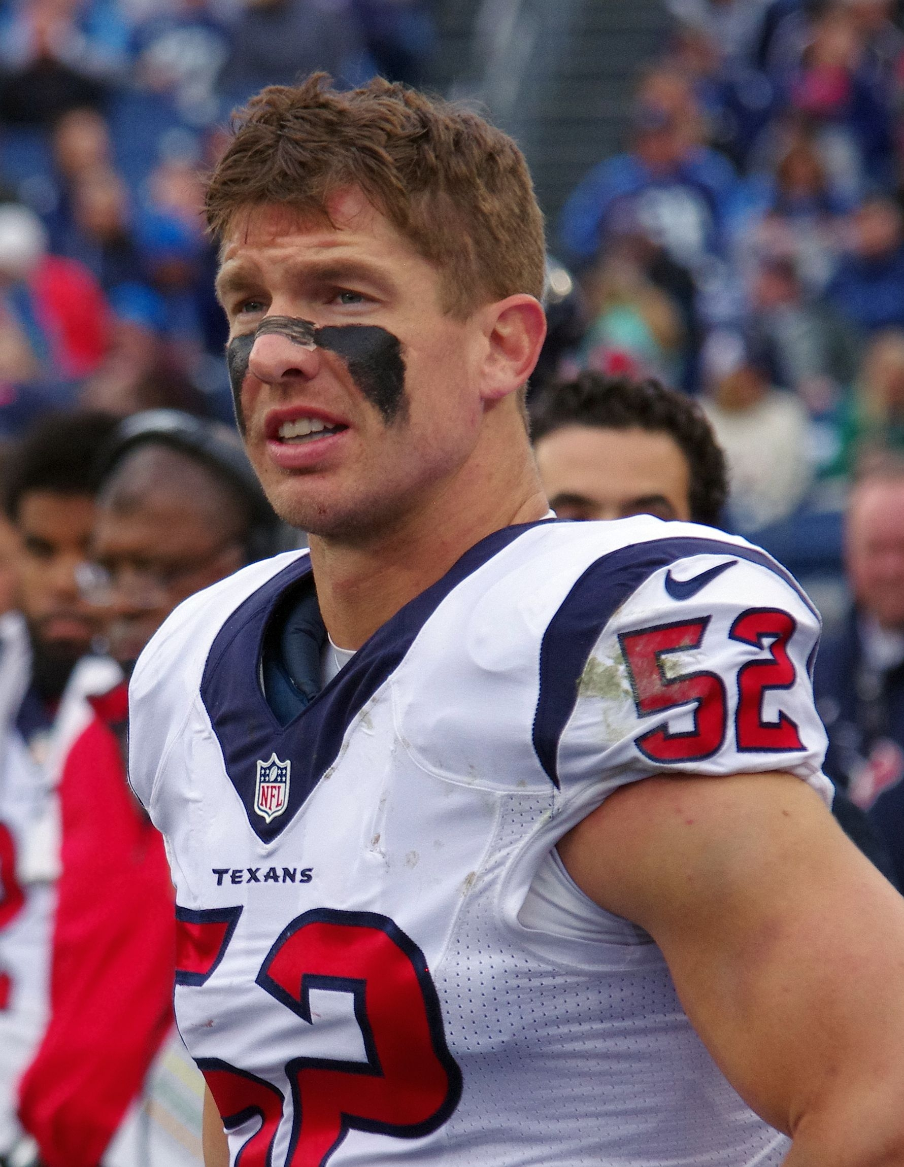 Brian Peters, No. 52 linebacker for Houston Texans. Texans vs. Titans, Nashville, Jan. 1, 2017